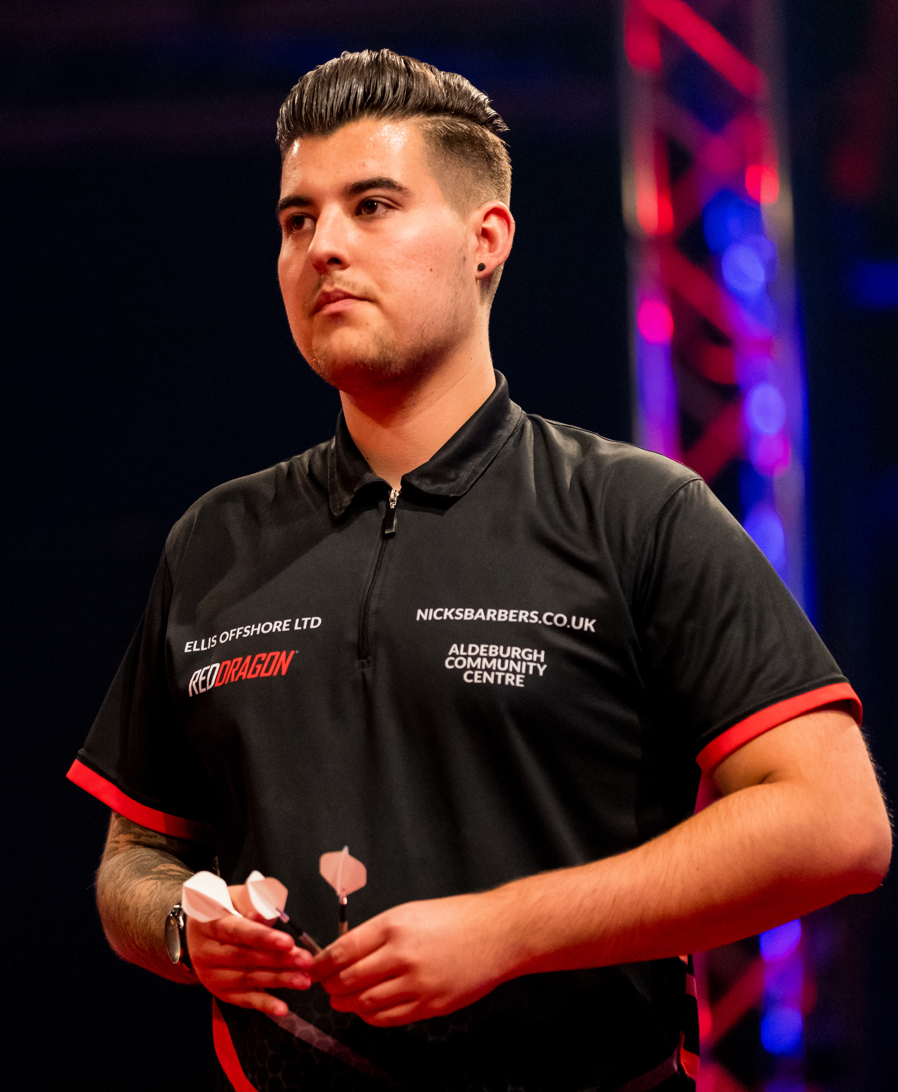 Dave Chisnall 6:2 Ryan Meikle during PDC Europe Darts Matchplay at Maimarkthalle, Mannheim, Baden-Württemberg, Germany on 2019-09-07, Photo: Sven Mandel